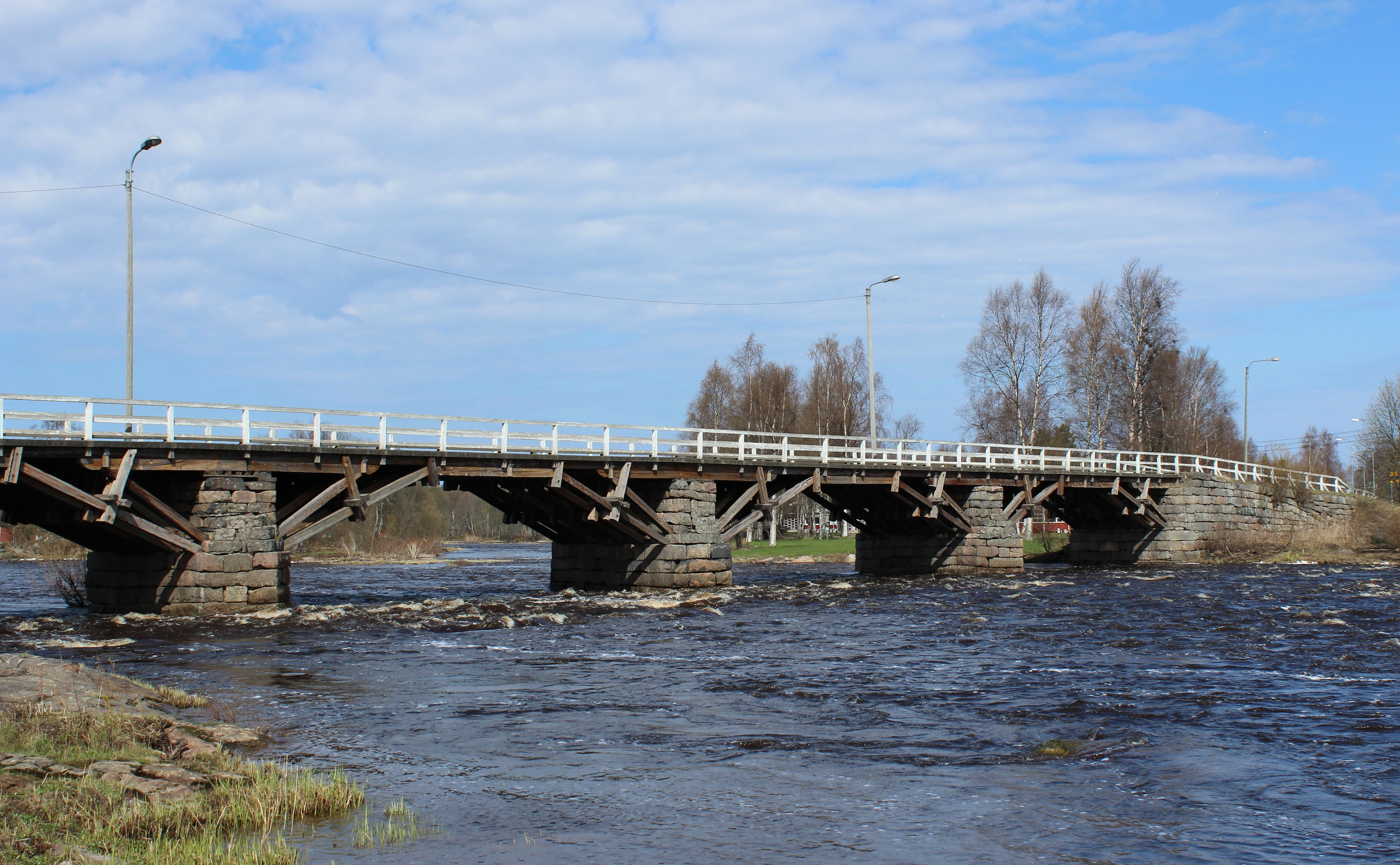 Etelänkylän isosilta bridge over the Pyhäjoki river in the municipality of Pyhäjoki in Finland.